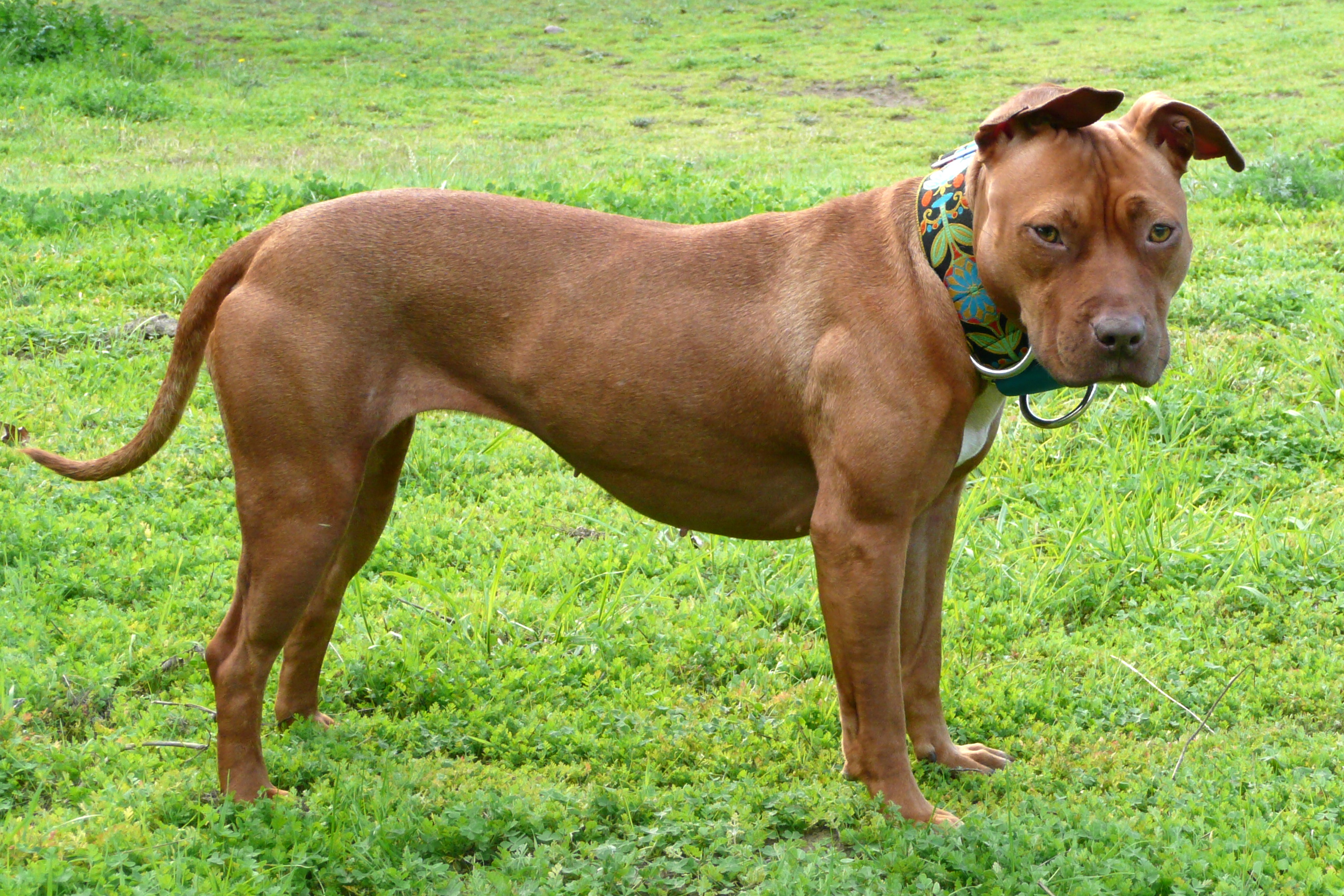 Red nose American Pit Bull Terrier dog, side view